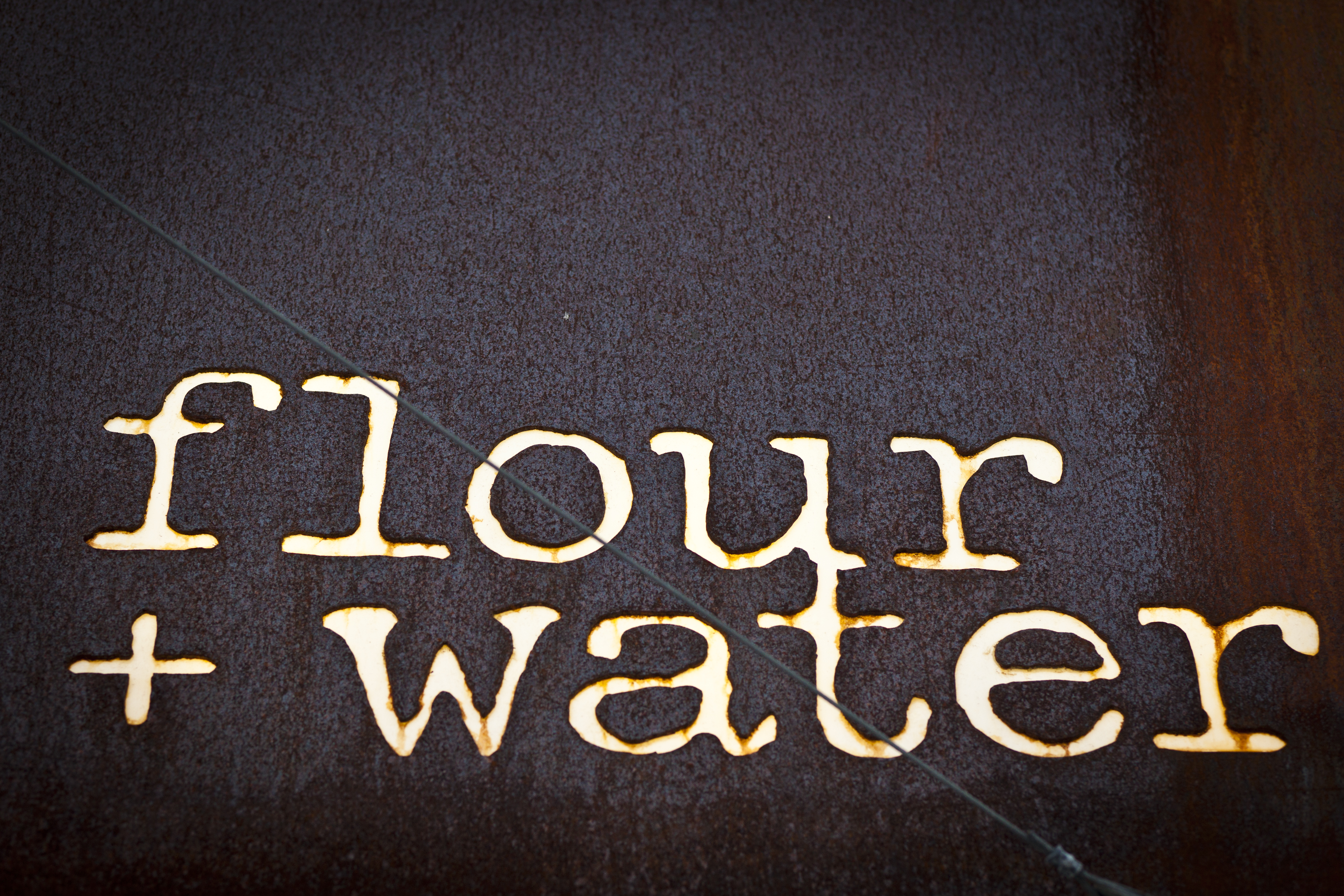 Italian inspired restaurant without turning our backs in California.